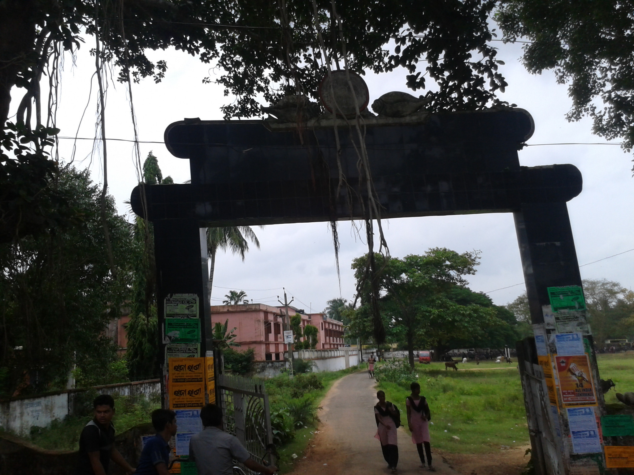 Main Gate of N. C. Autonomous College in Bichitrapur, county Jajpur, district Jajpur, state Odisha, India